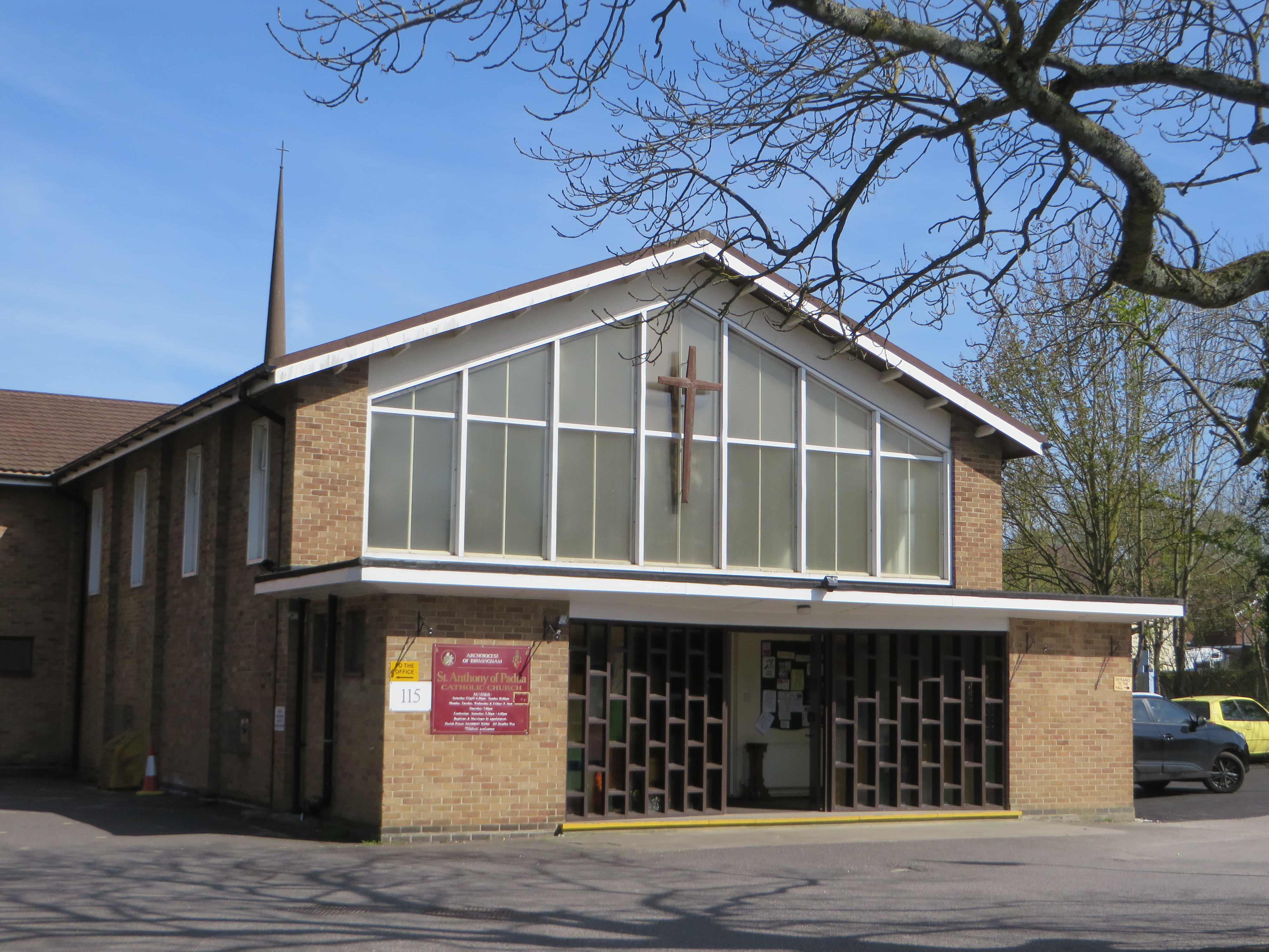 St Anthony of Padua Roman Catholic Church, Headley Way, Headington, Oxford, seen from the west